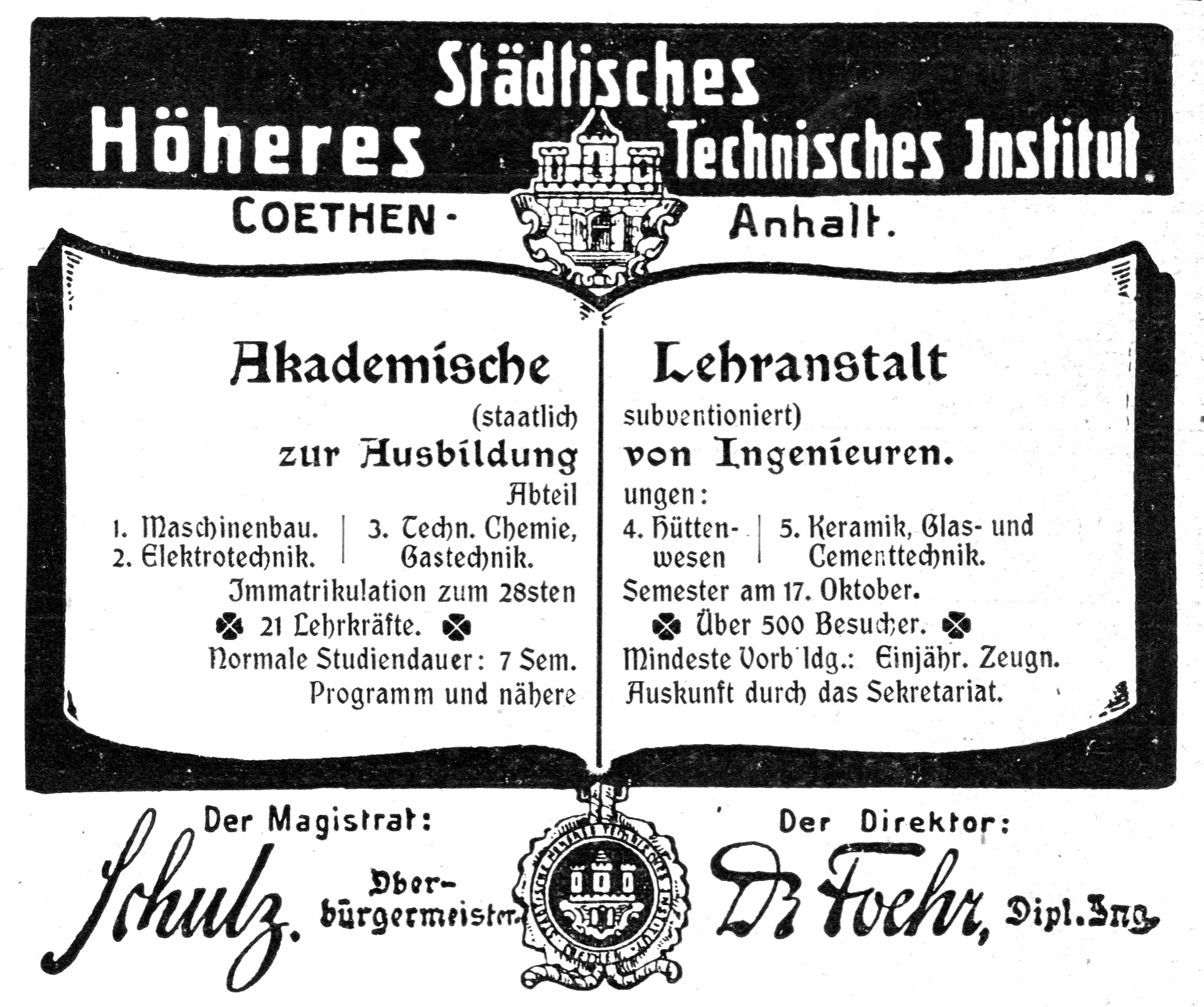 Advertisement of an Engineering School in Köthen